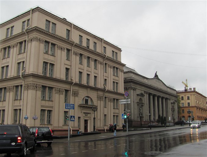 National Art Museum of the Republic of Belarus, Ul. Lenina 20-22 in Minsk, Belarus.